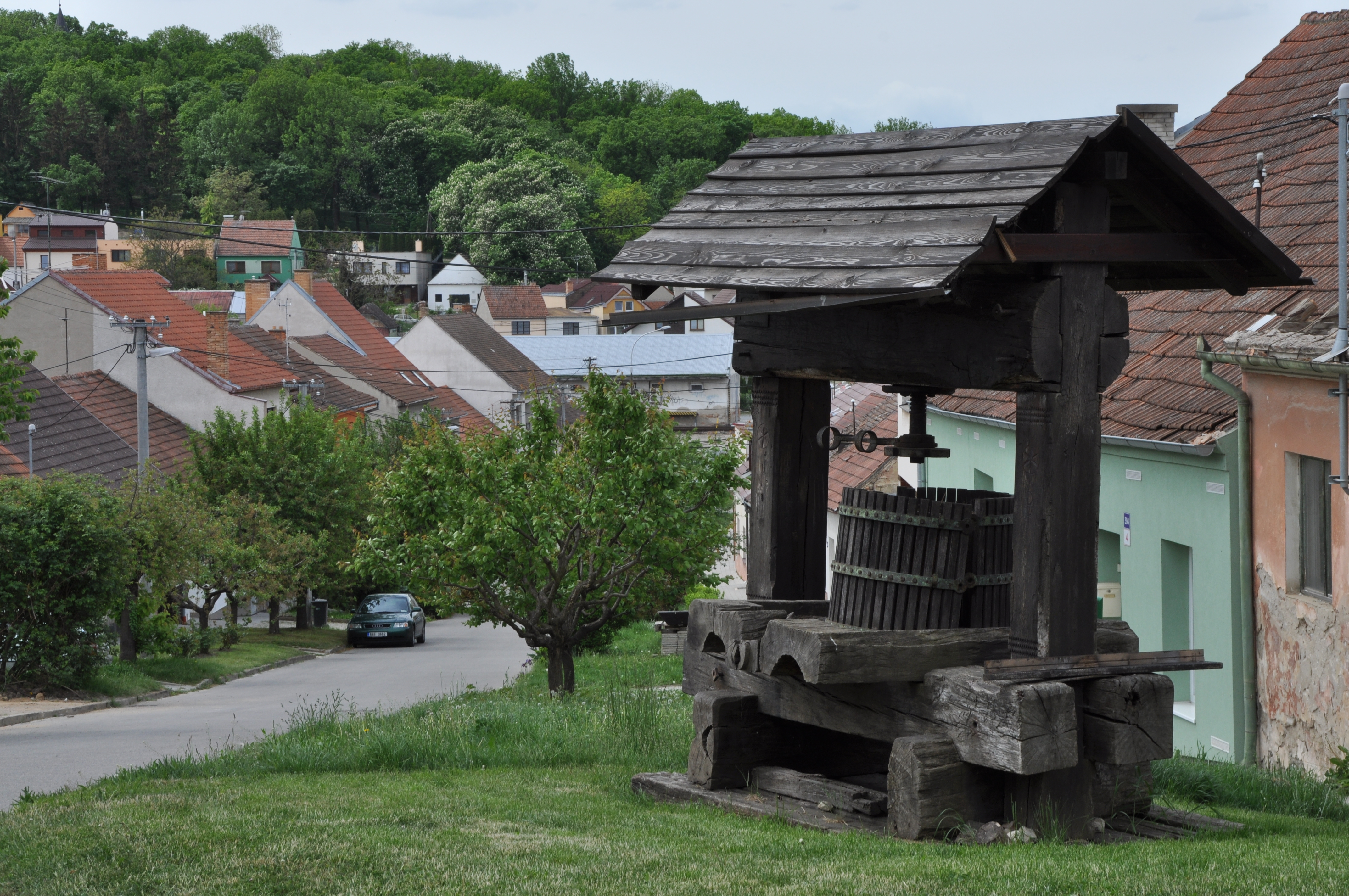 This image was acquired during the event Wikiměsto Hustopeče. Hustopeče, Palackého ulice, vinný lis